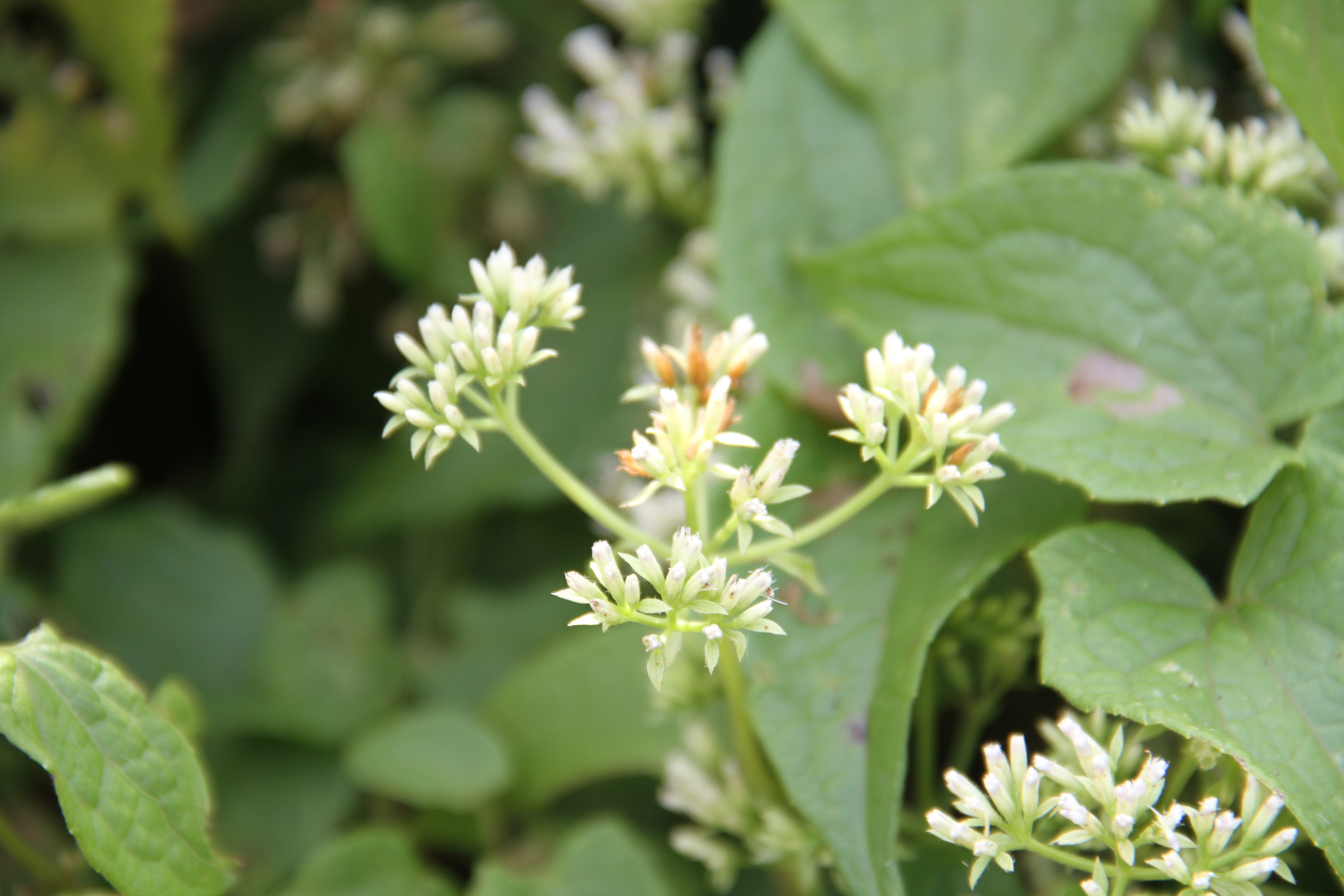 Mikania chenopodiifolia, along the road between Luba and Moka, Bioko, altitude ~800m (+-200), Guinea Ecuatorial The making of this document was supported by the Community-Budget of Wikimedia Germany.